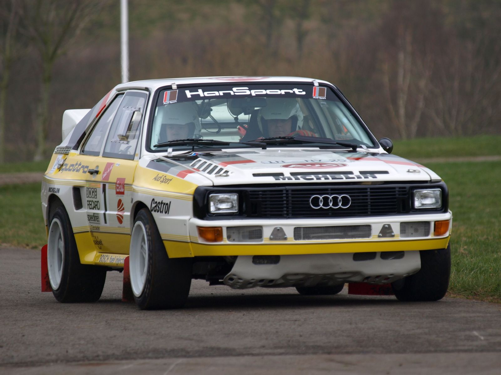 Michèle Mouton's Audi Sport Quattro driven at Race Retro 2008, the International Historic Motorsport Show, at Stoneleigh Park, Coventry, England.